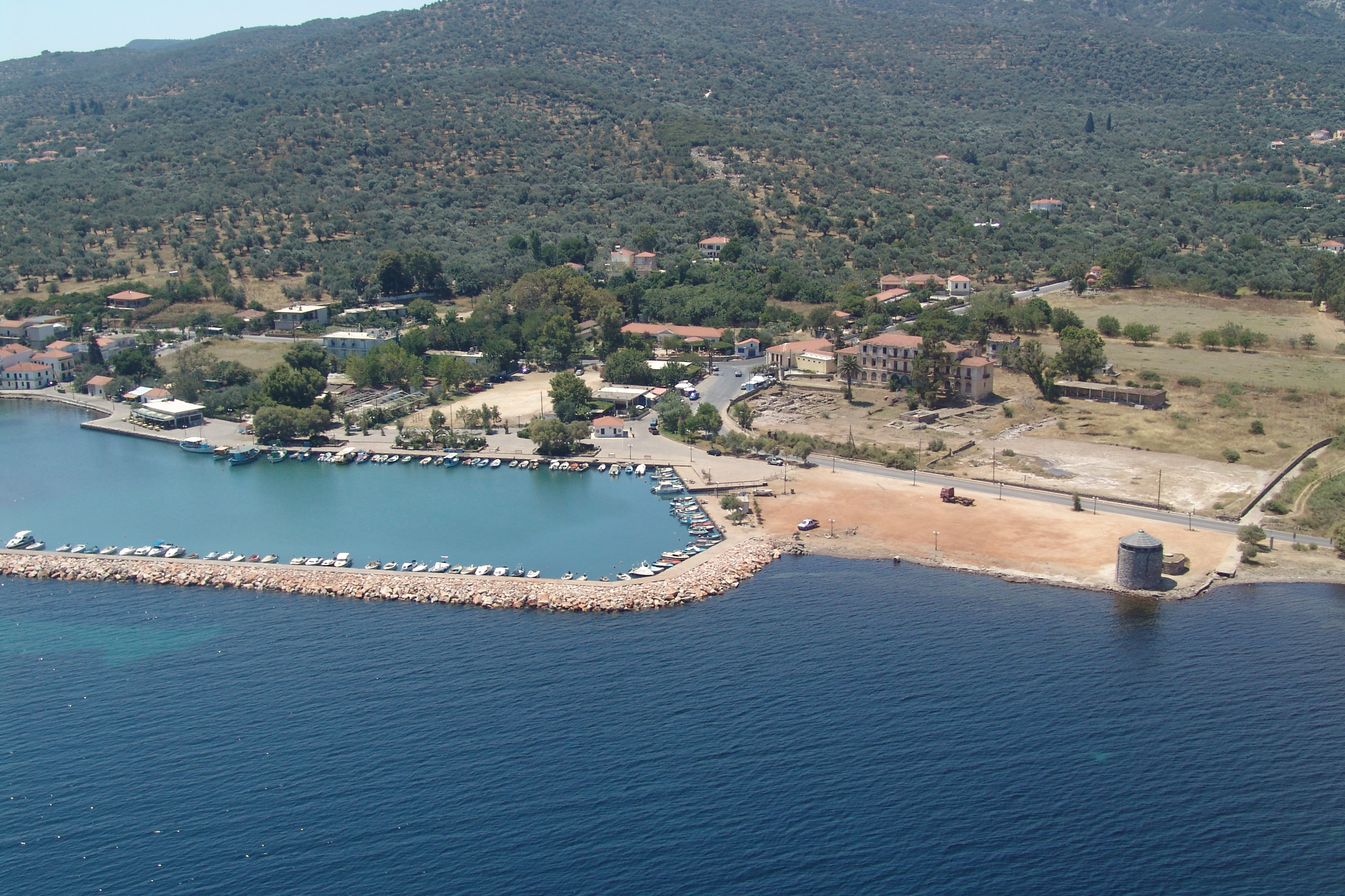 An aerial view of Thermi port taken by me in 2004. Costis STEFANOU